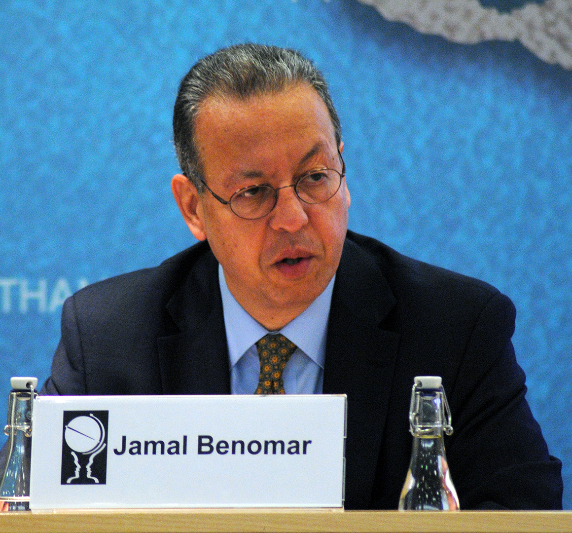 Jamal Benomar, Special Adviser to the UN Secretary General, UN Envoy to Yemen at the Chatham House event Friends of Yemen: Aid and Accountability, 6 March 2013